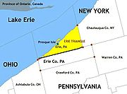 Black line indicates southern border of Erie Triangle within Erie County